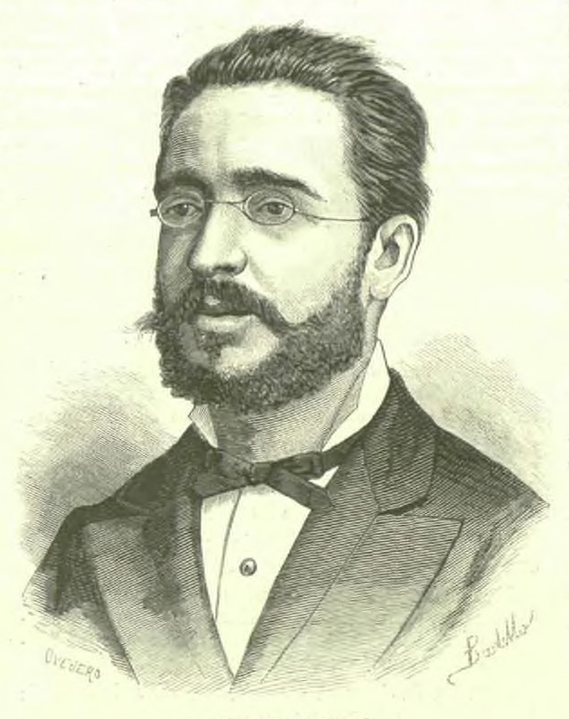 Ruperto Chapí (1857-1909), Spanish composer. Illustration from: La Ilustración Española y Americana, 1878, No, 8, p. 152.